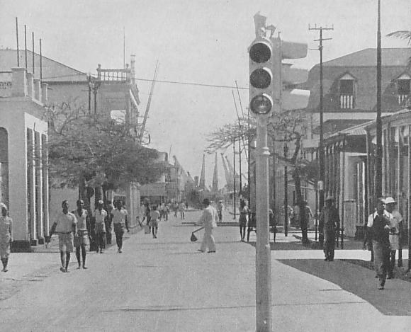 Beira (East Africa) in 1930s